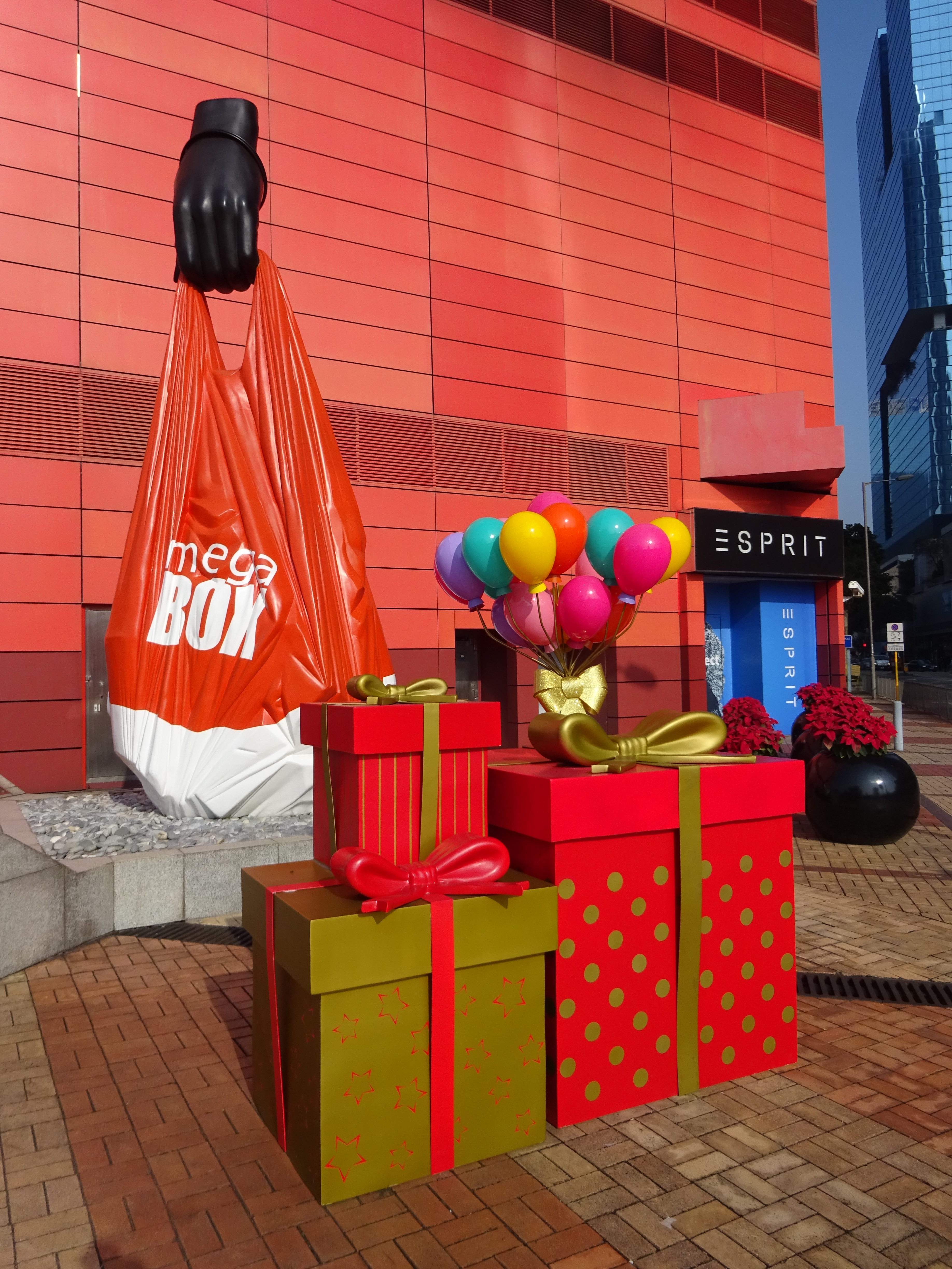 MegaBox mall, Kowloon Bay, Hong Kong